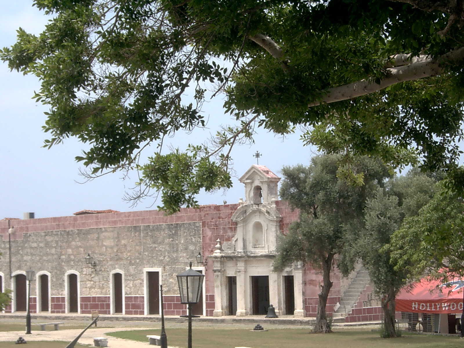 The Chapel of the "Fortaleza de San Carlos de la Cabaña" in La Habana